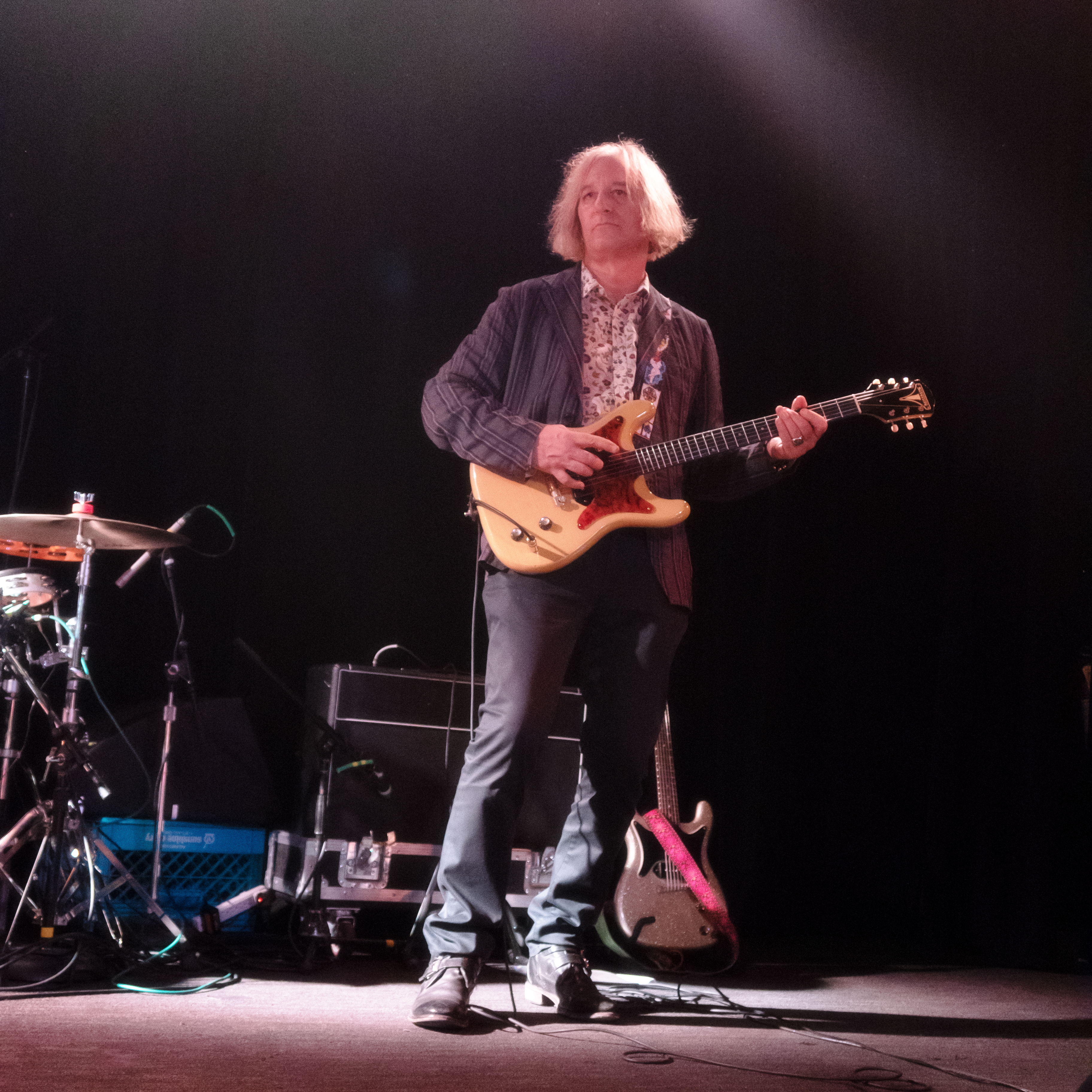 Peter Buck performing in Arthur Buck, Crocodile in Seattle. Sept 7, 2018